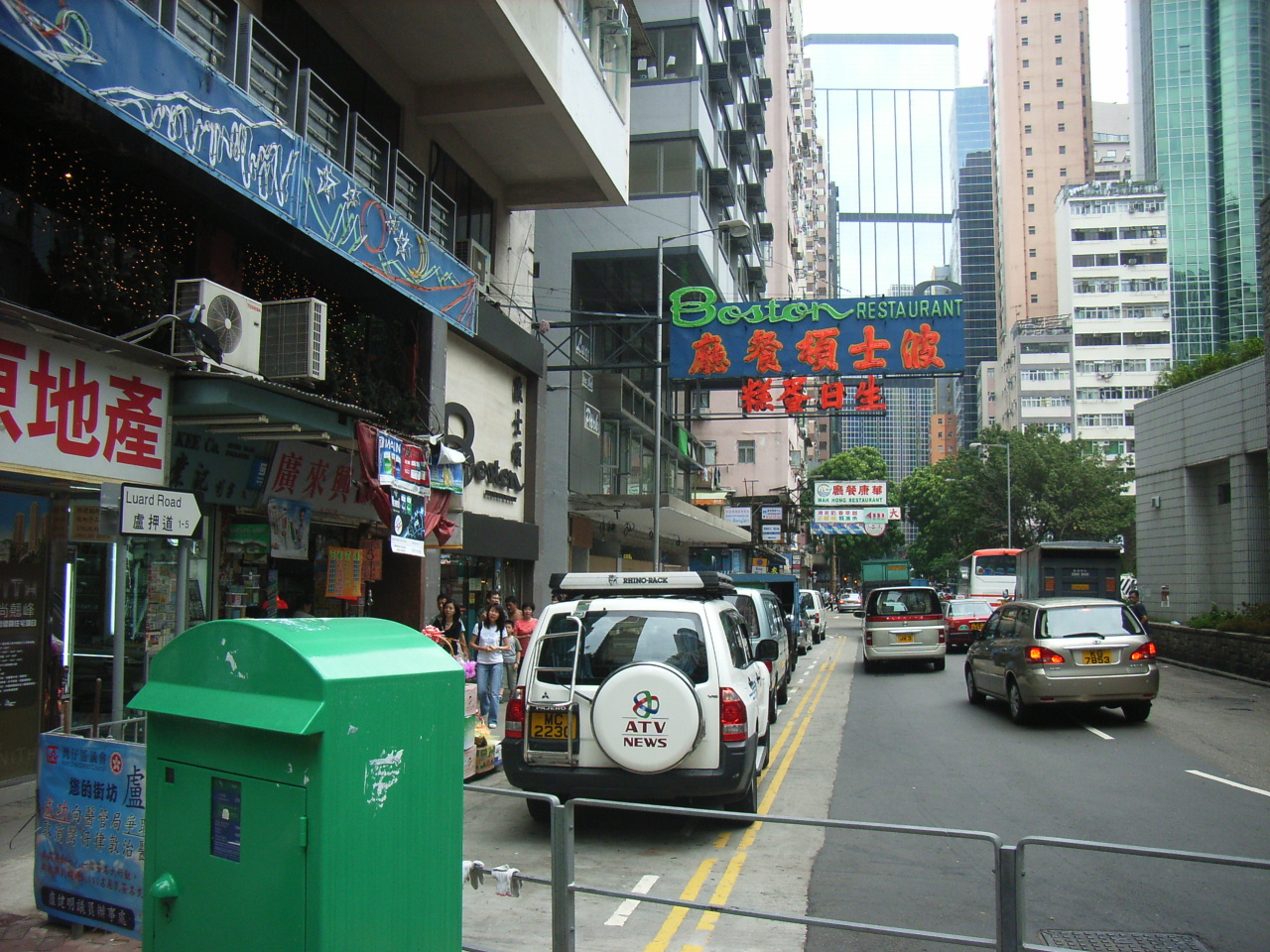 盧押道(Luard Road)是在香港島灣仔的一條行車街道 (Easter Louvina 3).